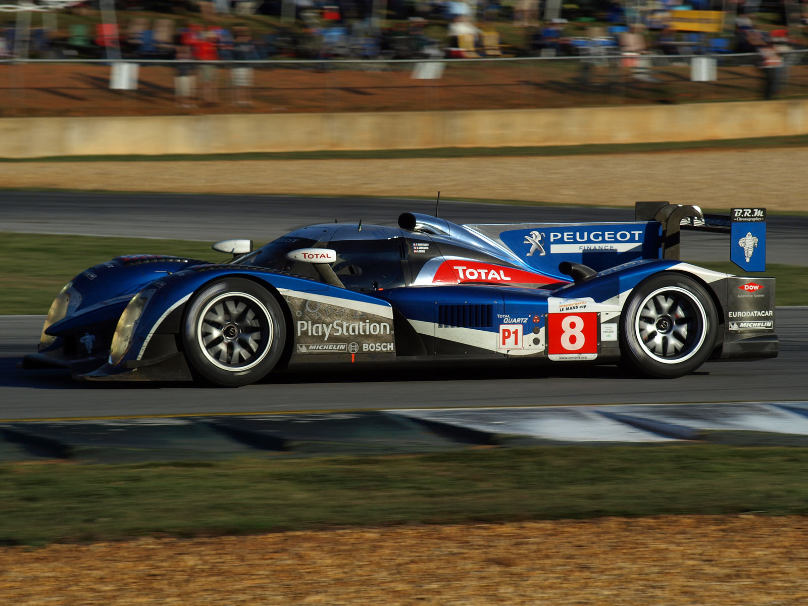 The Peugeot Sport Peugeot 908, winner of the 2011 Petit Le Mans at Road Atlanta.